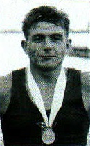 Rower from Czechoslovakia Jiří Havlis